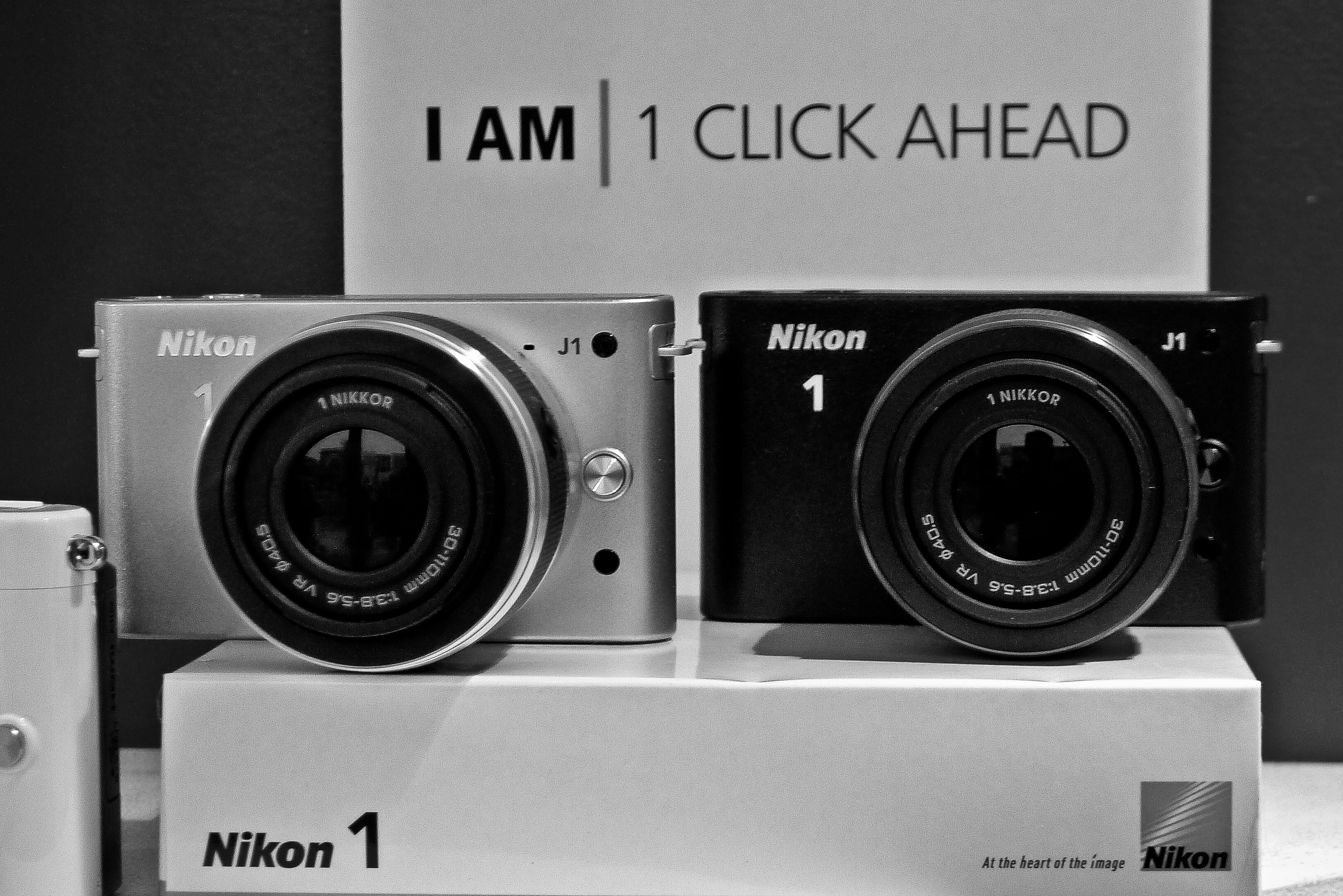 Nikon 1 J1 in Milan, Italy.